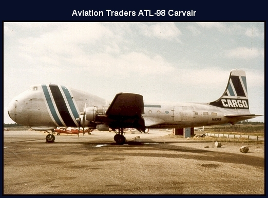 Aviation Traders Limited ATL-98 Carvair